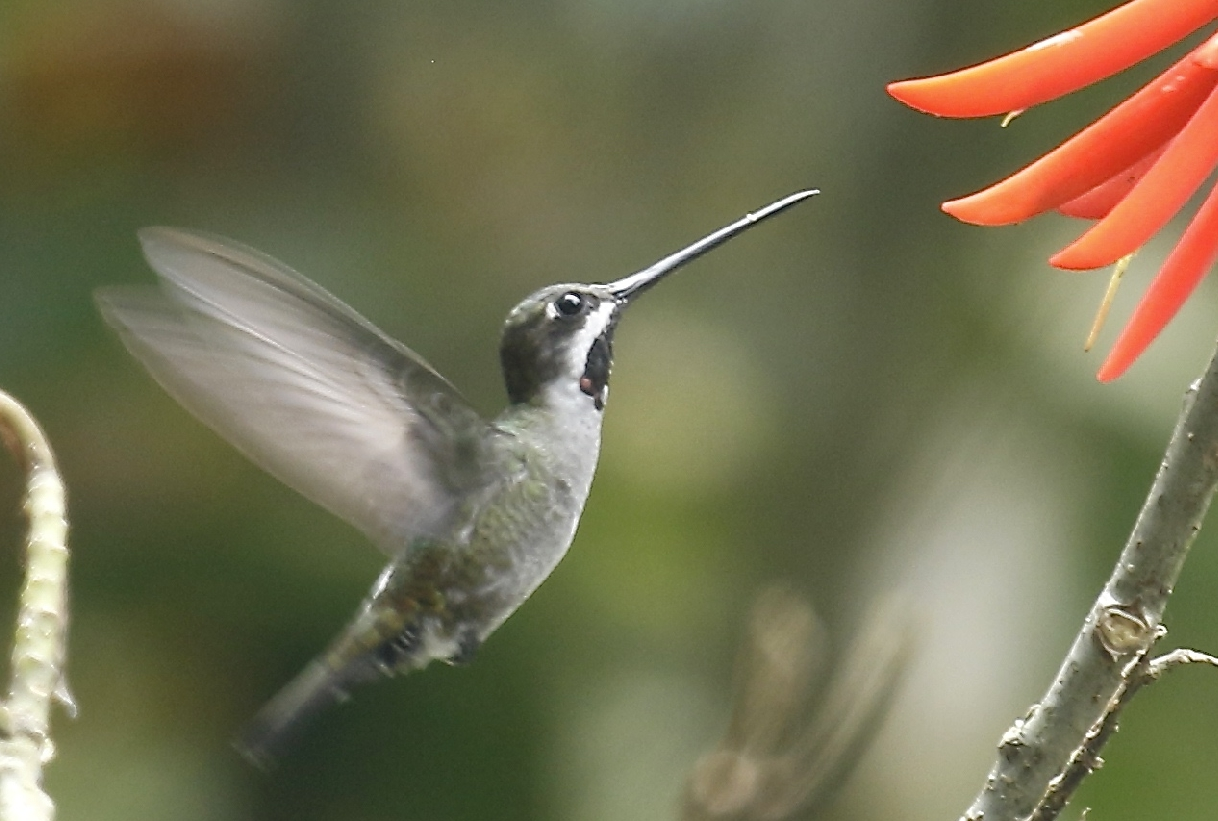 Canopy Lodge - El Valle, Panama